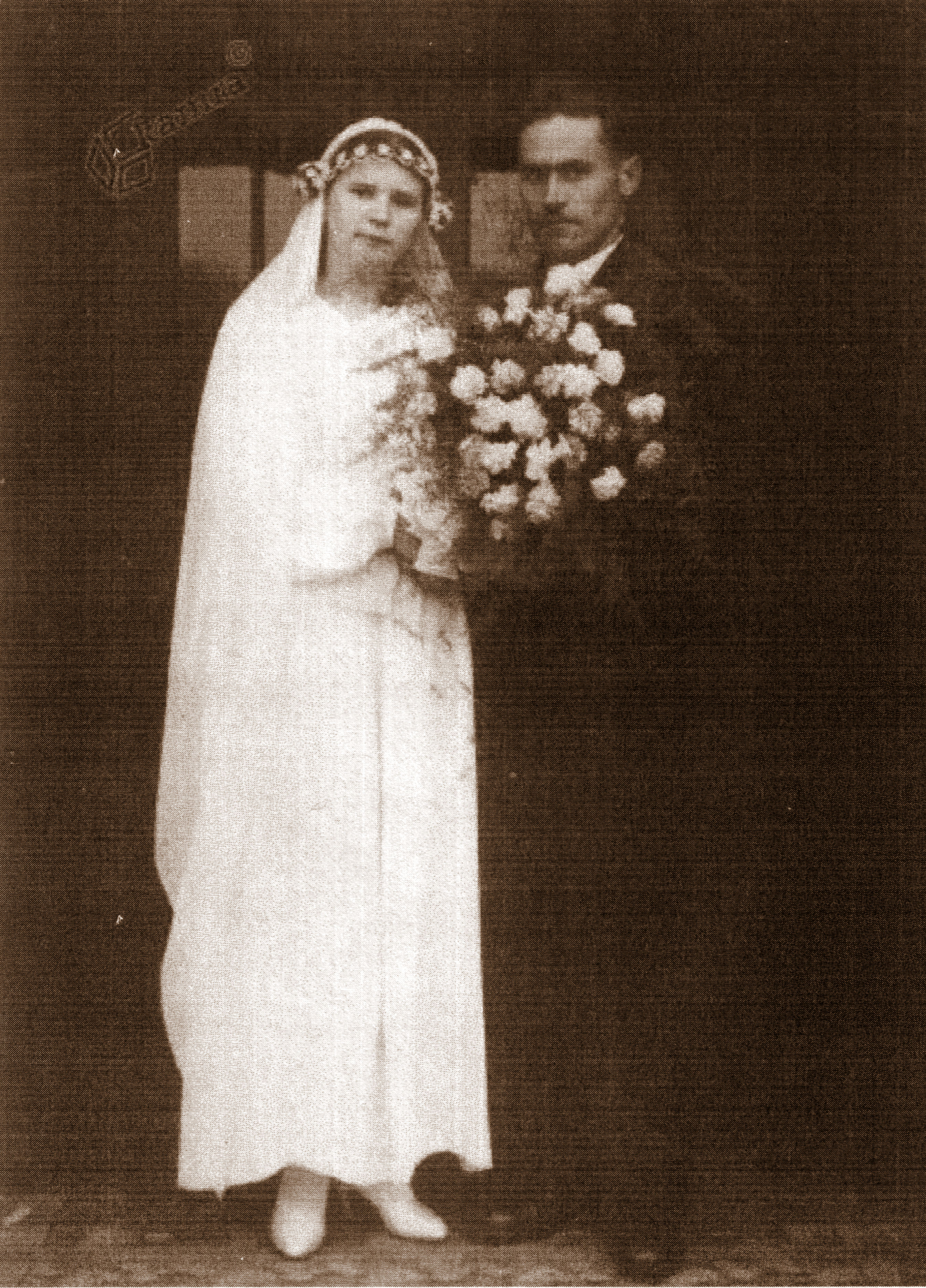 First marriage in Plečnik's chapel in Mala Loka: Marija Brenčič and Anton Jelen.